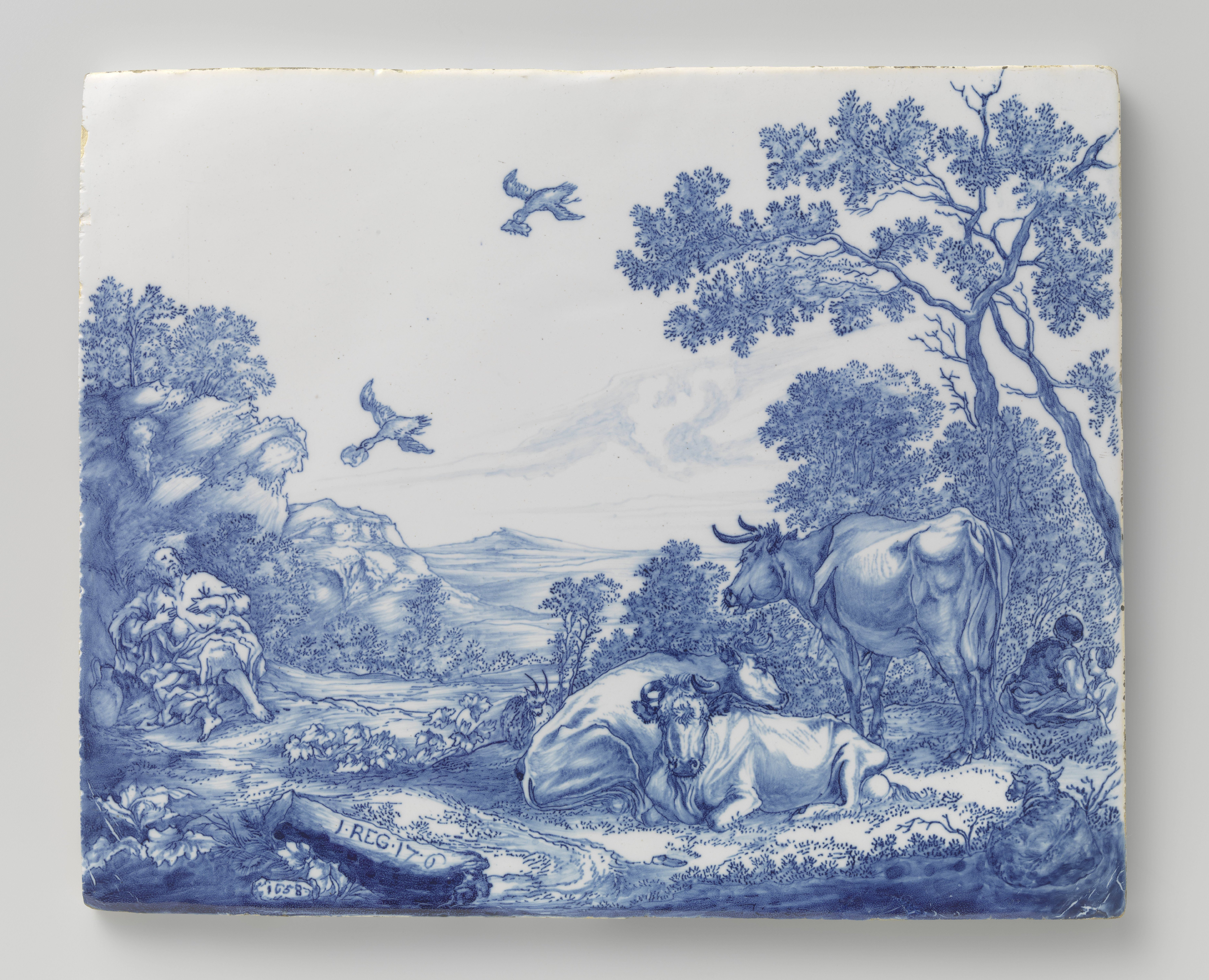 Plaque with the Prophet Elijah Fed by the Ravens.